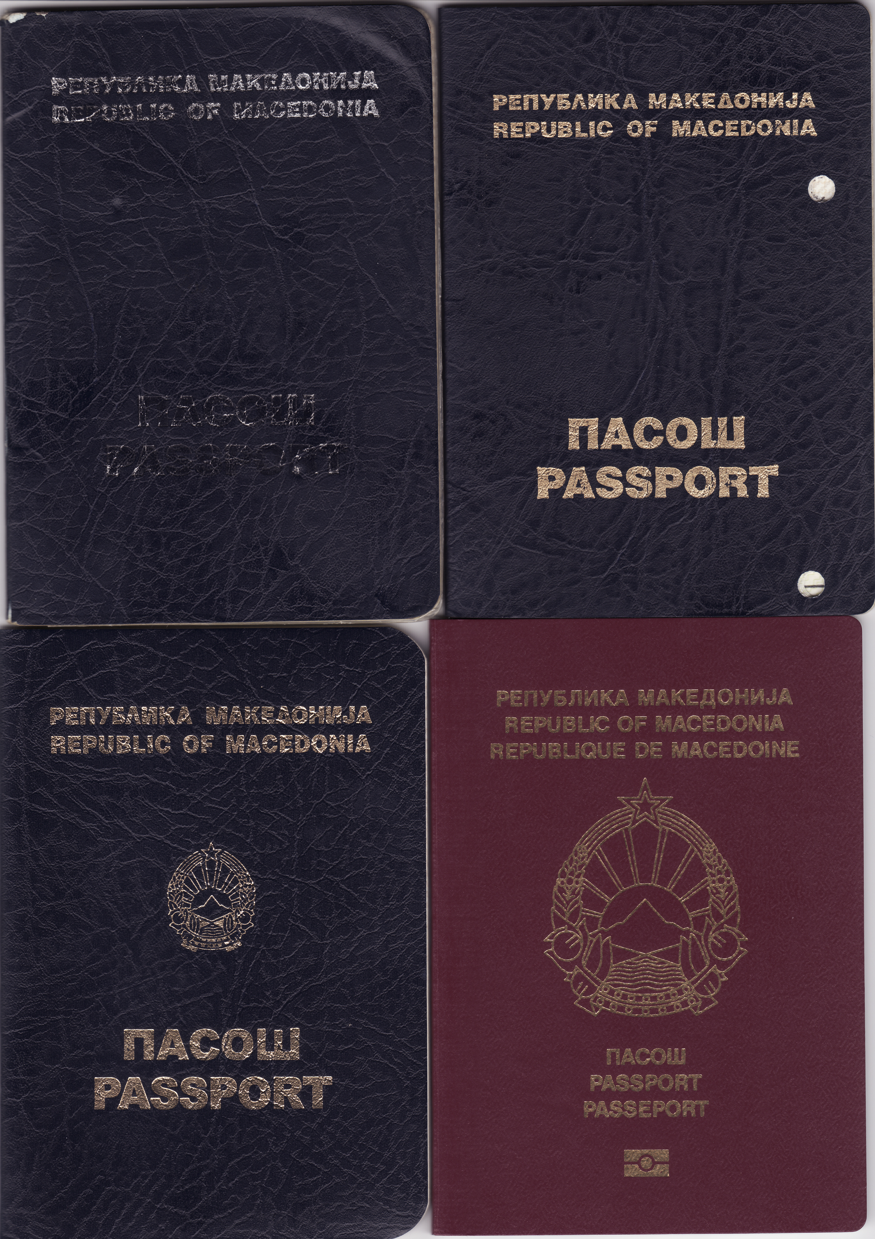 History of the Macedonian Passport.